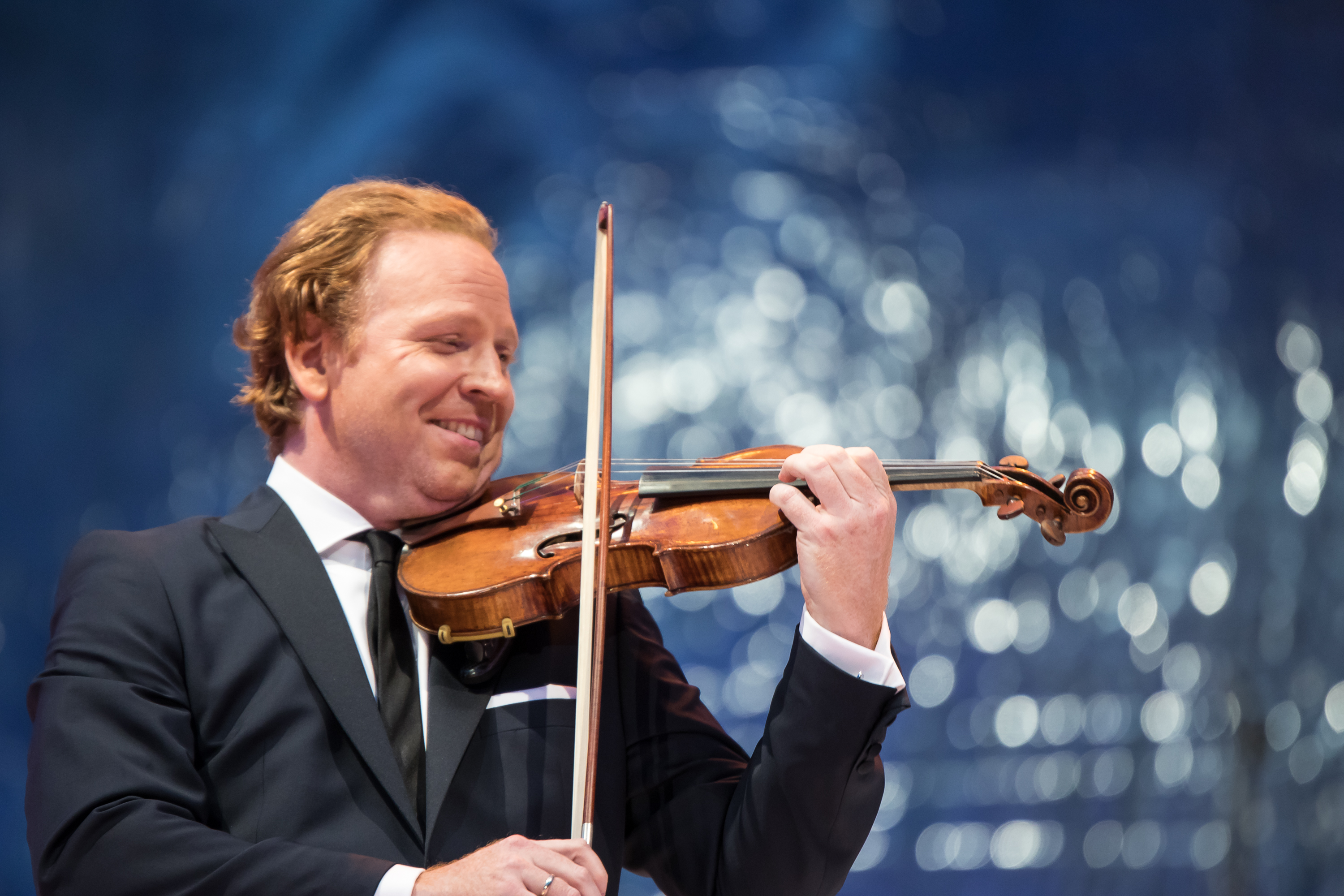 Eurovision Young Musicians 2016 in Cologne, Rehearsal on September 2nd 2016: Daniel Hope